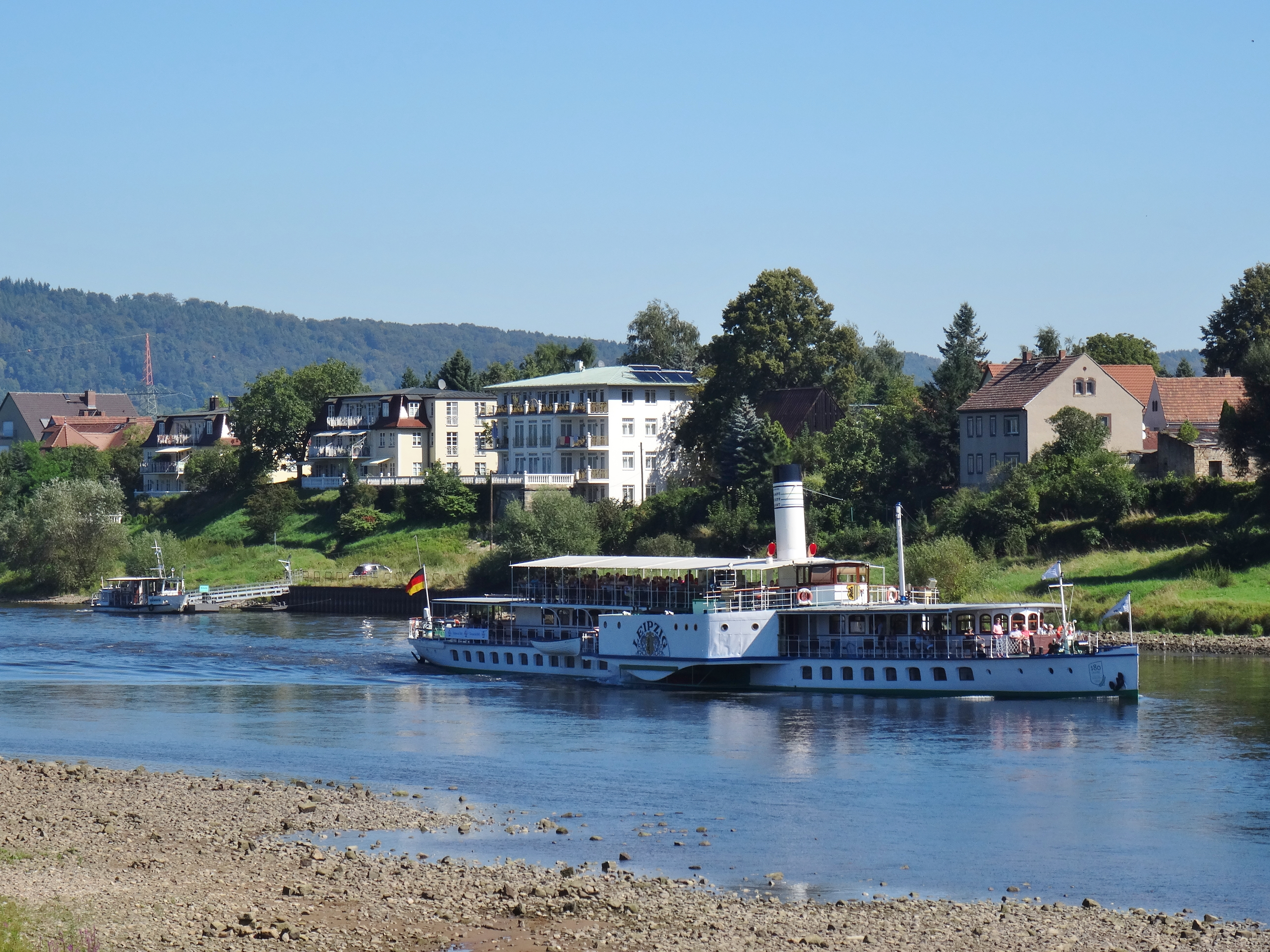 Leipzig (ship, 1929, Laubegast)